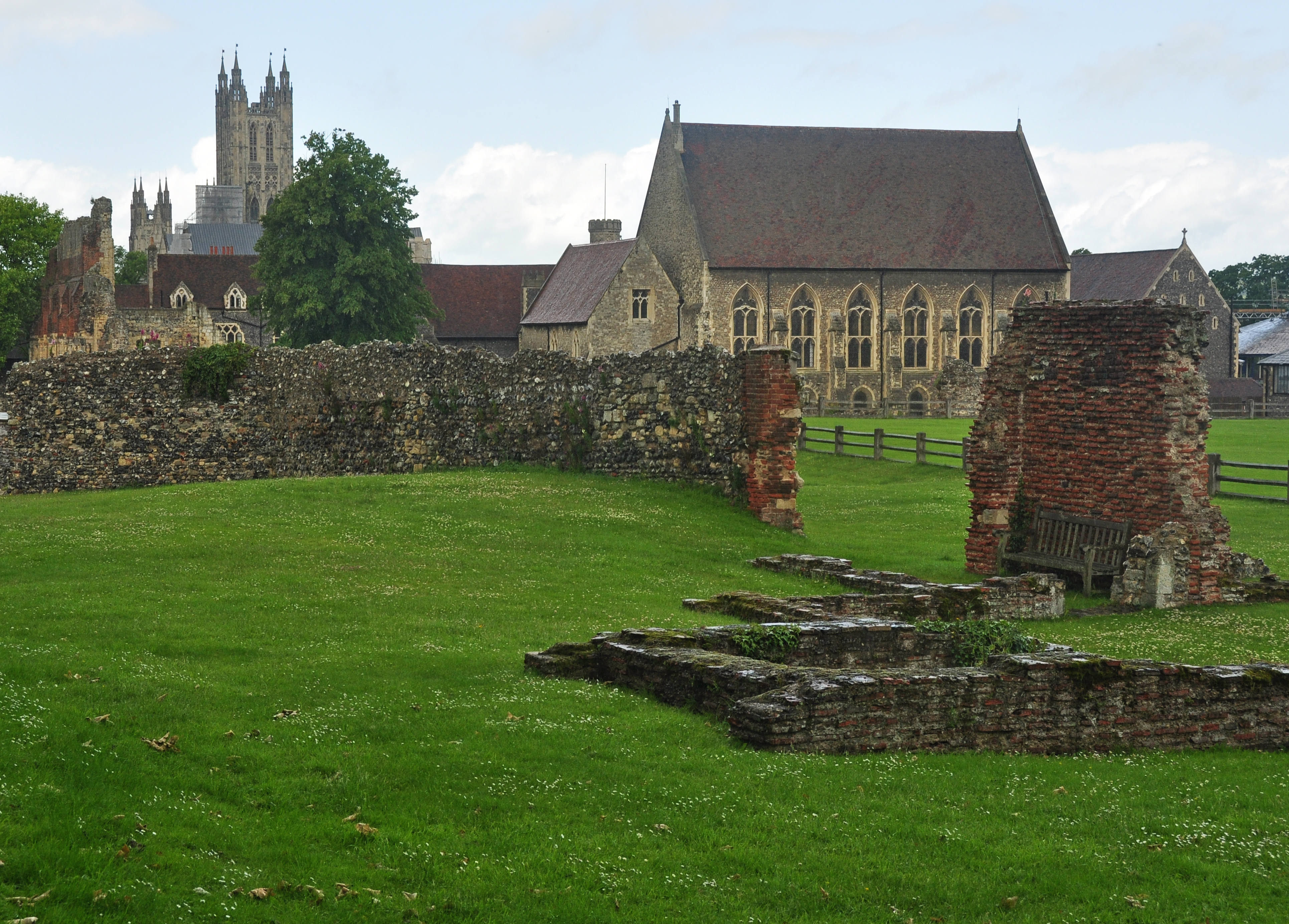 St Augustine's Abbey in Canterbury, with the cathedral on the skyline.